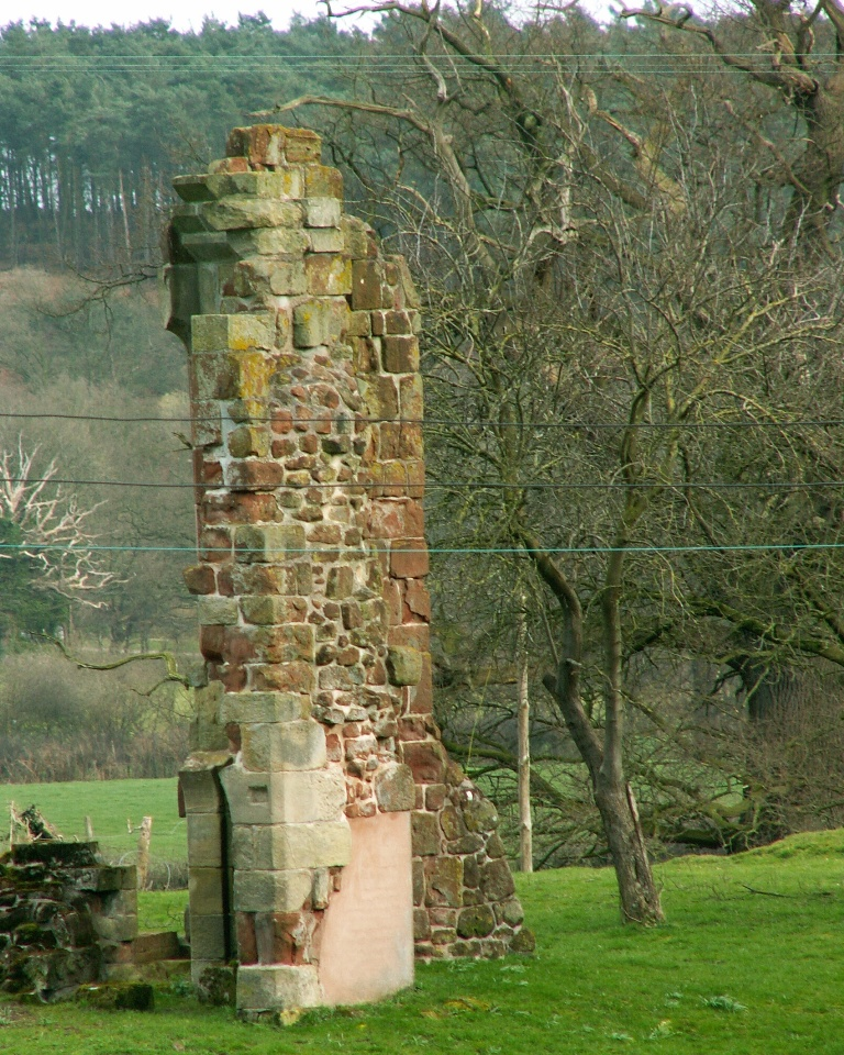 Myddle Castle Ruins Shropshire